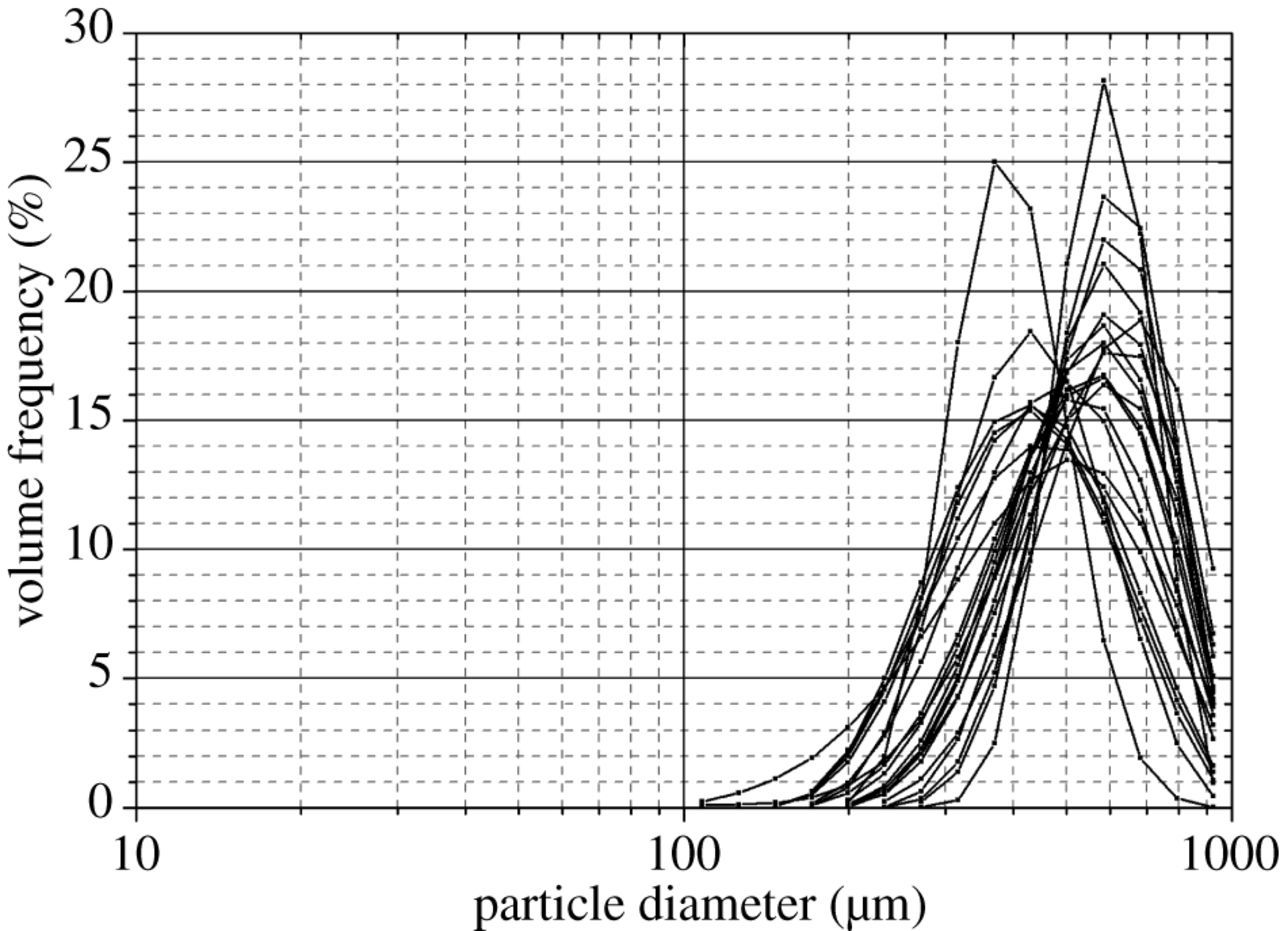 Diagram of Sneeze droplet distribution characteristics of volume-based size distribution